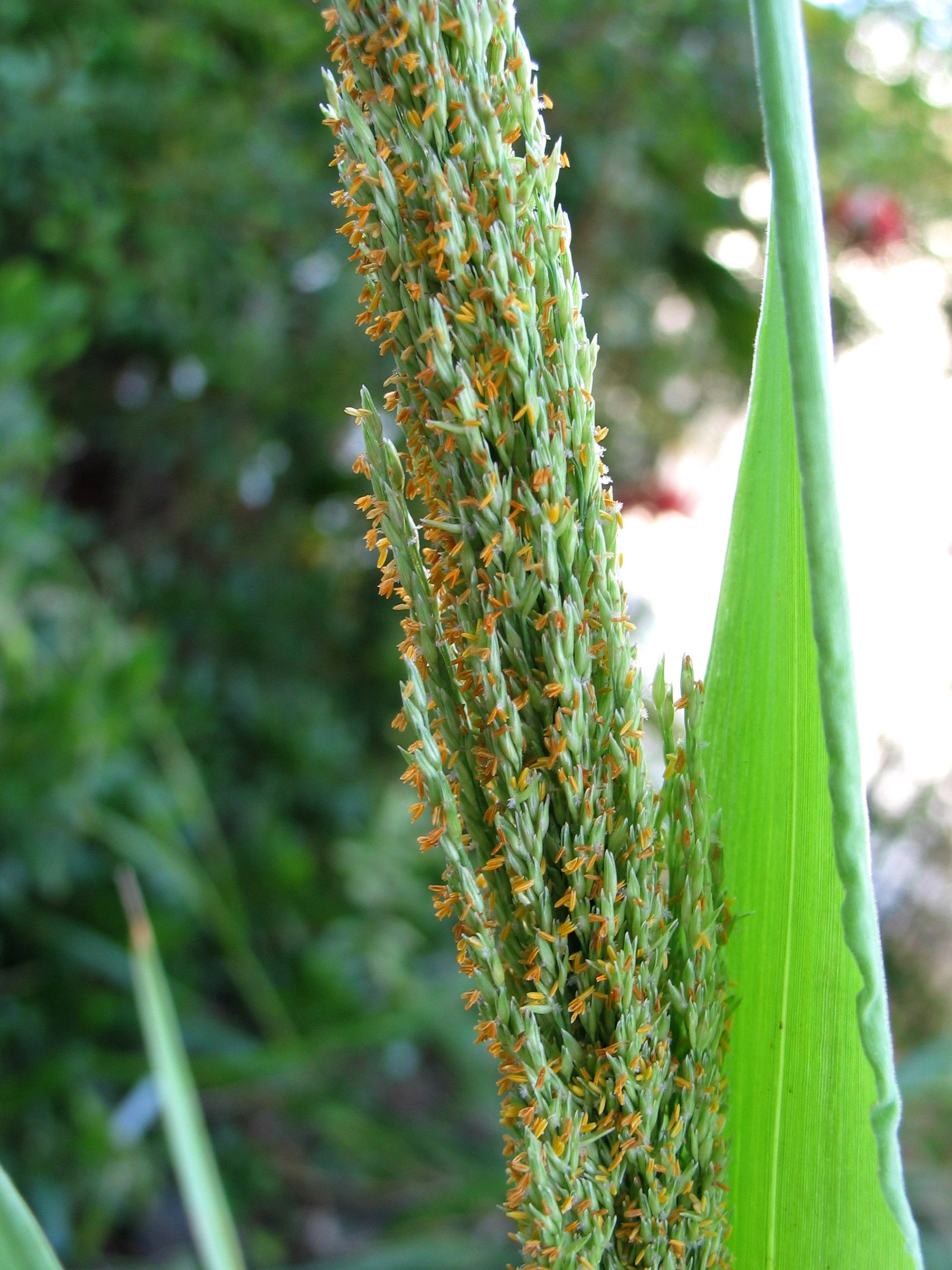 Lauʻehu or Niʻihau panicgrass Poaceae (Gramineae) Endemic to the Hawaiian Islands (Niʻihau, extinct; Kauaʻi, extant) Endangered Oʻahu (Cultivated) Flowers